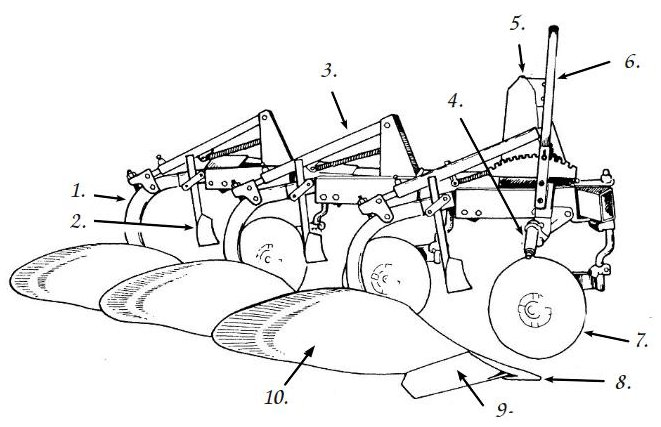 Sketch of a three-furrow plough